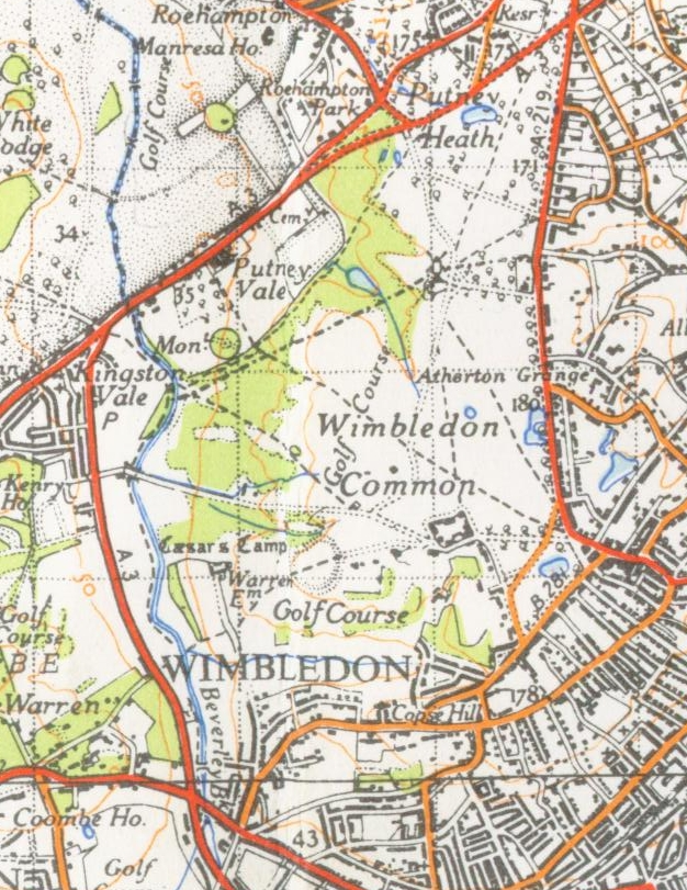 from the 1944 OS map of se London 1 inch to the mile